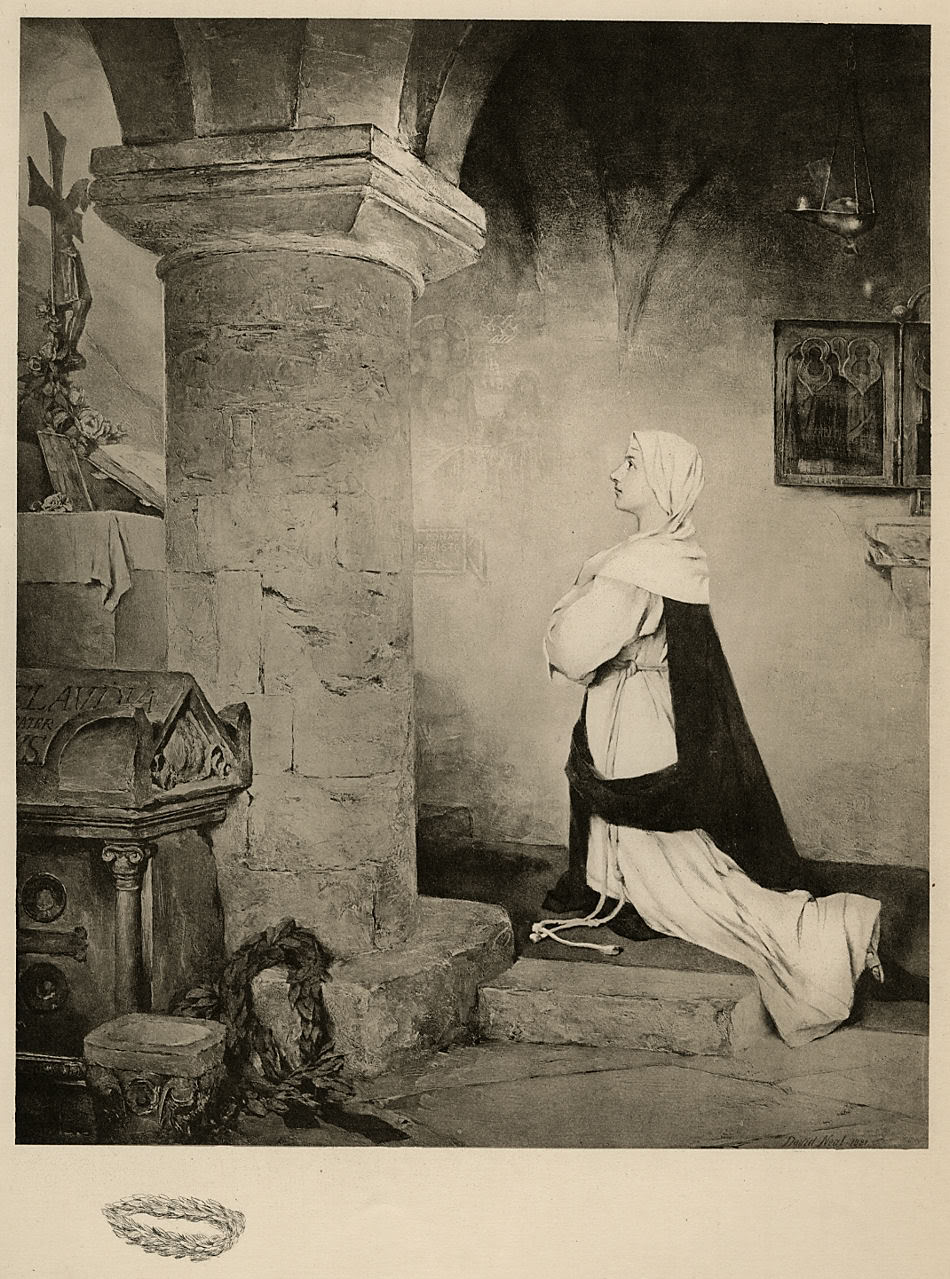 Photogravure published in 1893